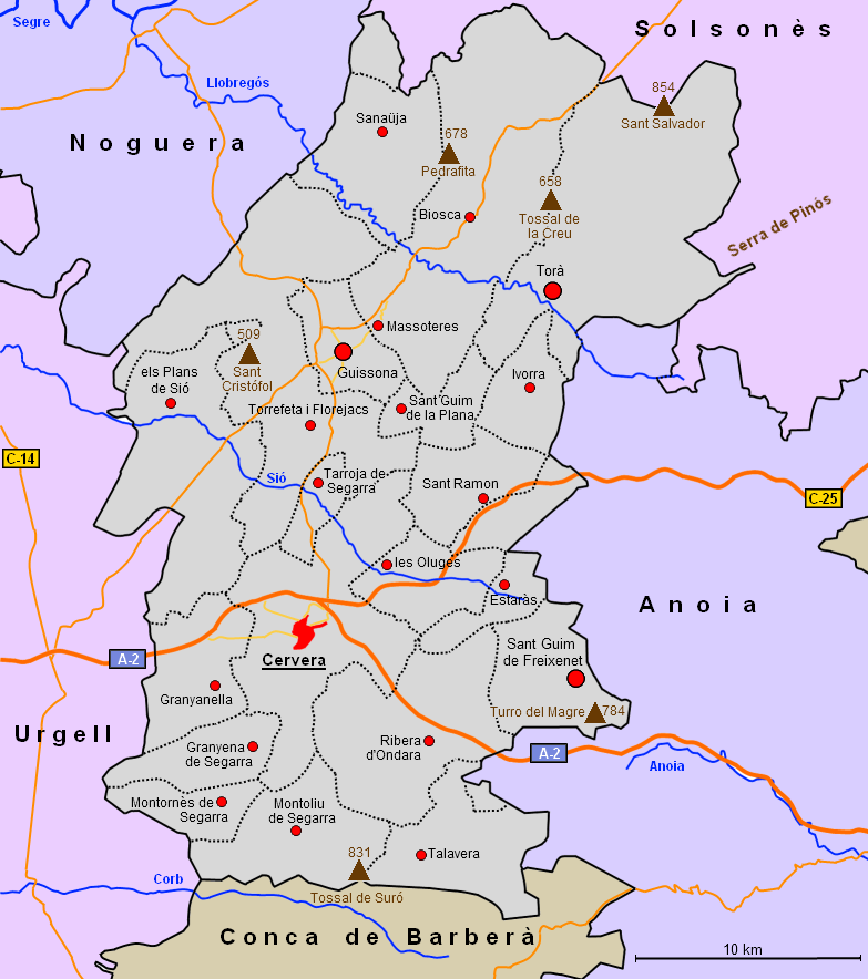 Map of the comarca Segarra, Catalonia, Spain